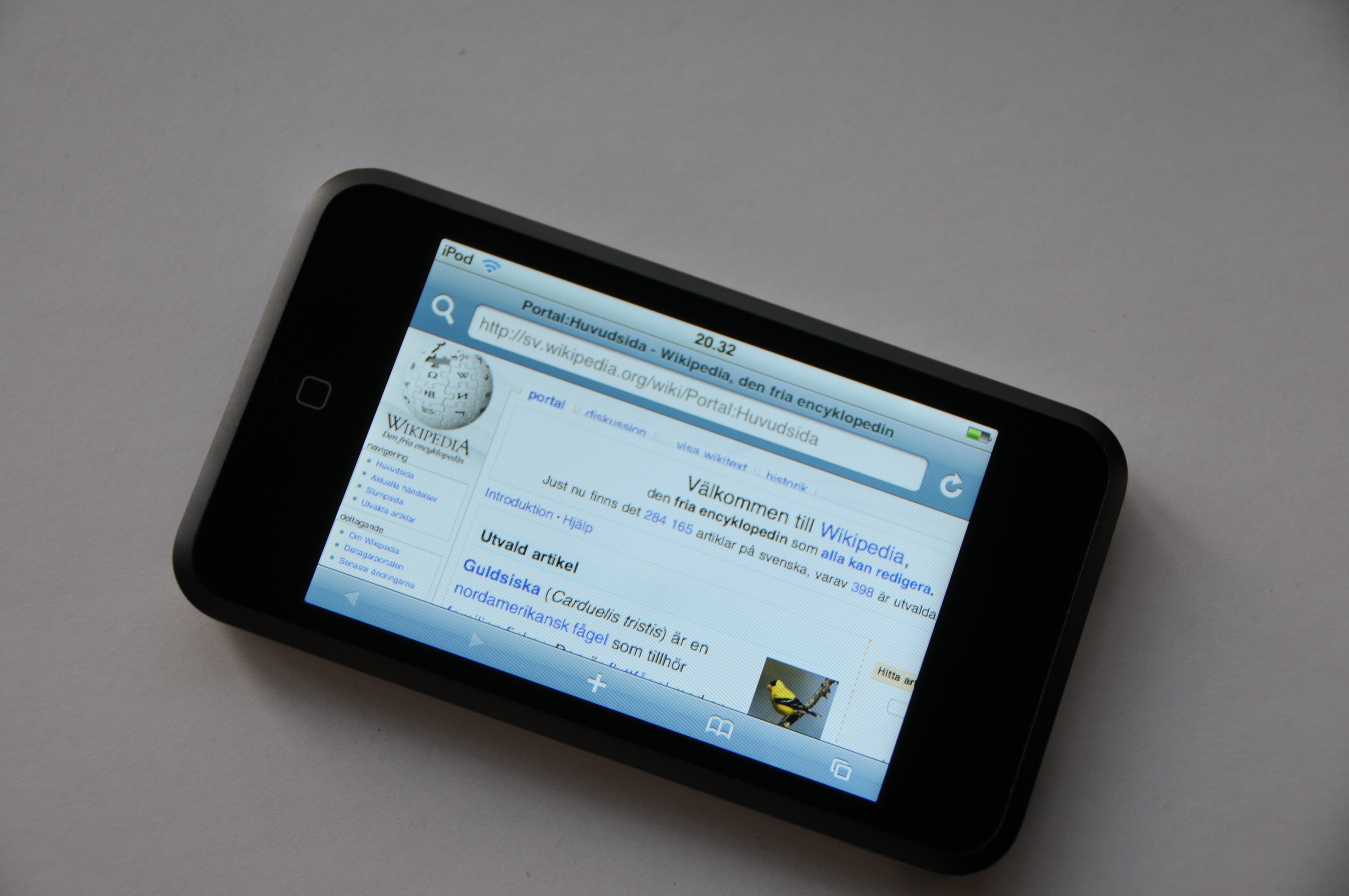 Wikipedia (Swedish language version) as seen on an iPod touch